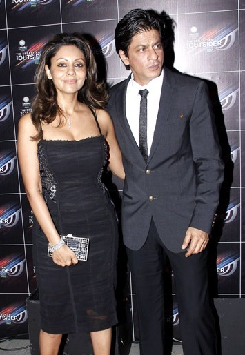 Shahrukh Khan and wife Gauri at 'The Outsider' launch party in 2012